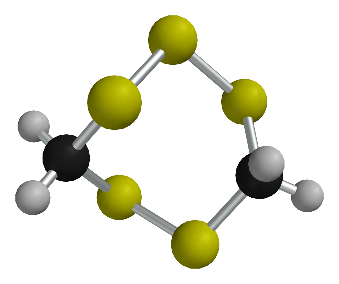 Lenthionine-3D-balls